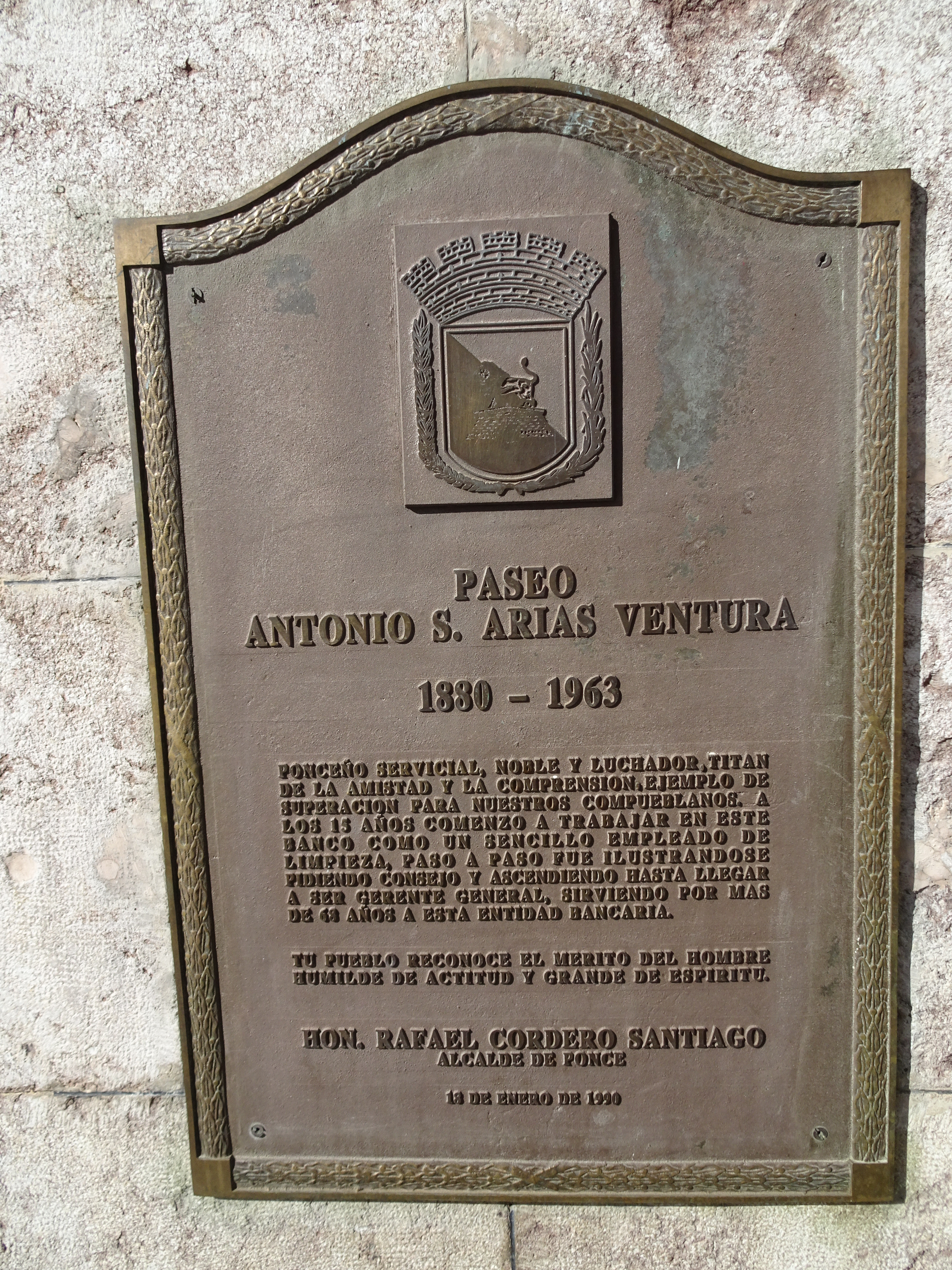 Placa a Antonio S. Arias Ventura, pared exterior sur, antiguo Banco Crédito y Ahorro Ponceño, Paseo Arias, Bo. Tercero, Ponce, PR (DSC01207)